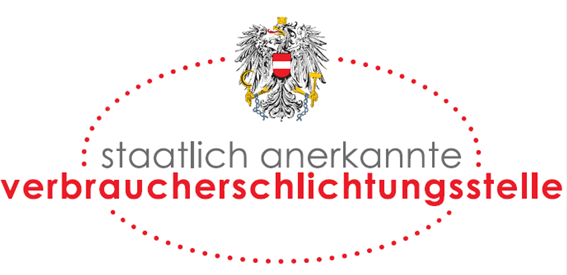 Alternative dispute resolution entity (ADR entity, in German "AS-Stelle") for out-of-court arbitration (ADR) must bear this symbol in Austria. As a result, they are recognizable to consumers as such by the state, which ensure that the treatment of disputes is fair, fast, efficient and transparent in the sense of the austrian ADR-act (in